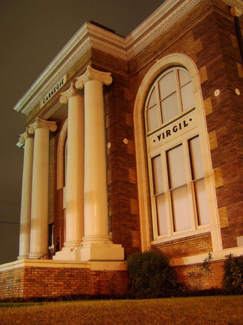 Terrell Carnegie Library